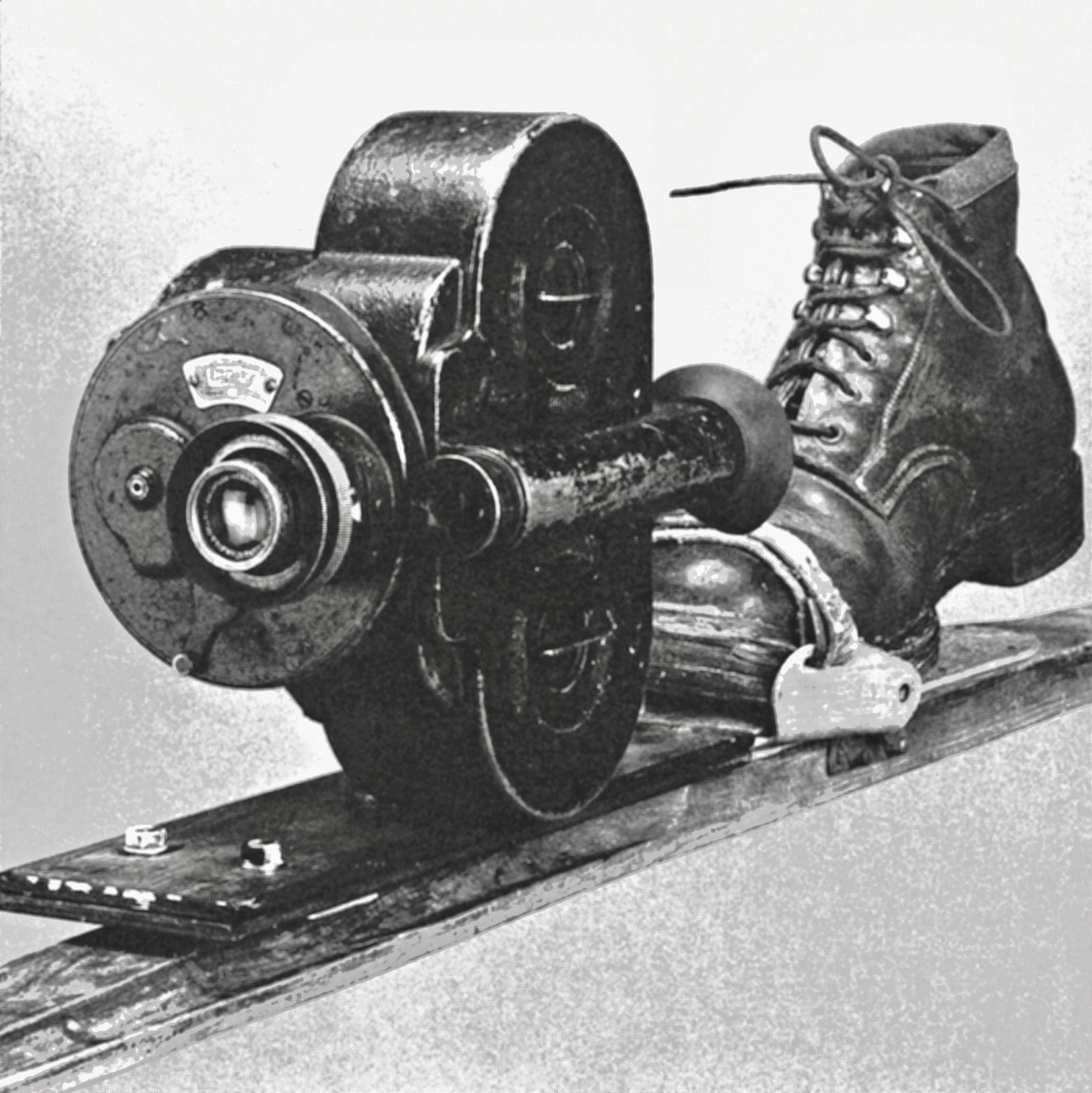 An Eyemo 35mm film camera (1925) by Bell & Howell Co. of Chicago, Illinois, on a ski. This construction and ski film recording technology was initially created by Sepp Allgeier (1895-1968) and Arnold Fanck (1889–1974). The principle was taken up decades later by Willy Bogner (Fire and Ice, 1986) for ski action scenes in various James Bond feature films.